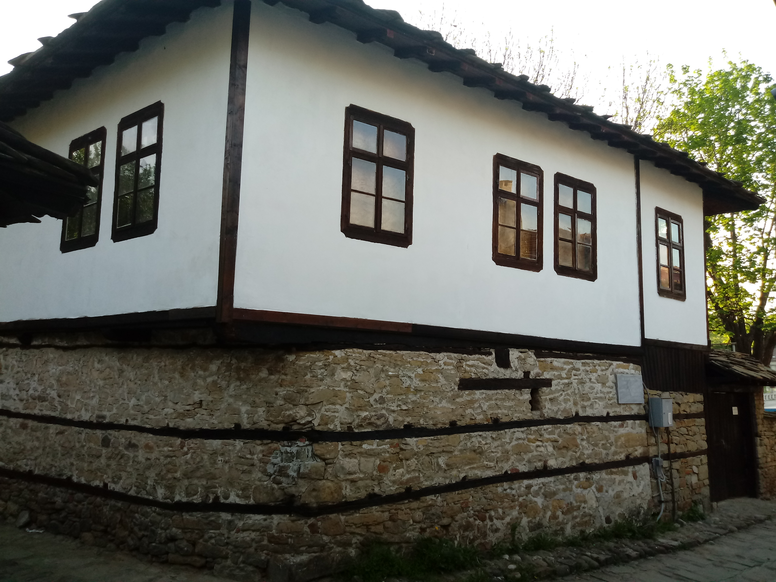 Toma Davidov home with memorial plaque, Lovech